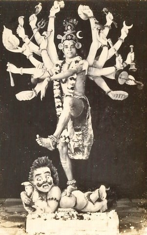 Dace pose of Guru Chandrasekharan